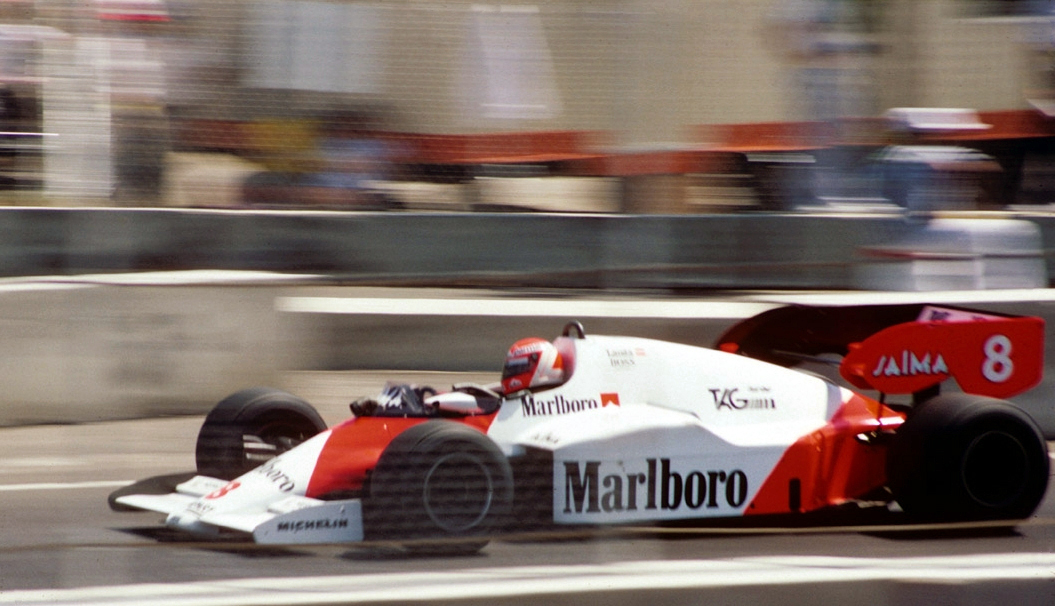 Niki Lauda in his Marlboro McLaren TAG. Niki was the World Driving Champion in 1975, 1977 and 1984. He retired with enough pocket money to start his own airline.